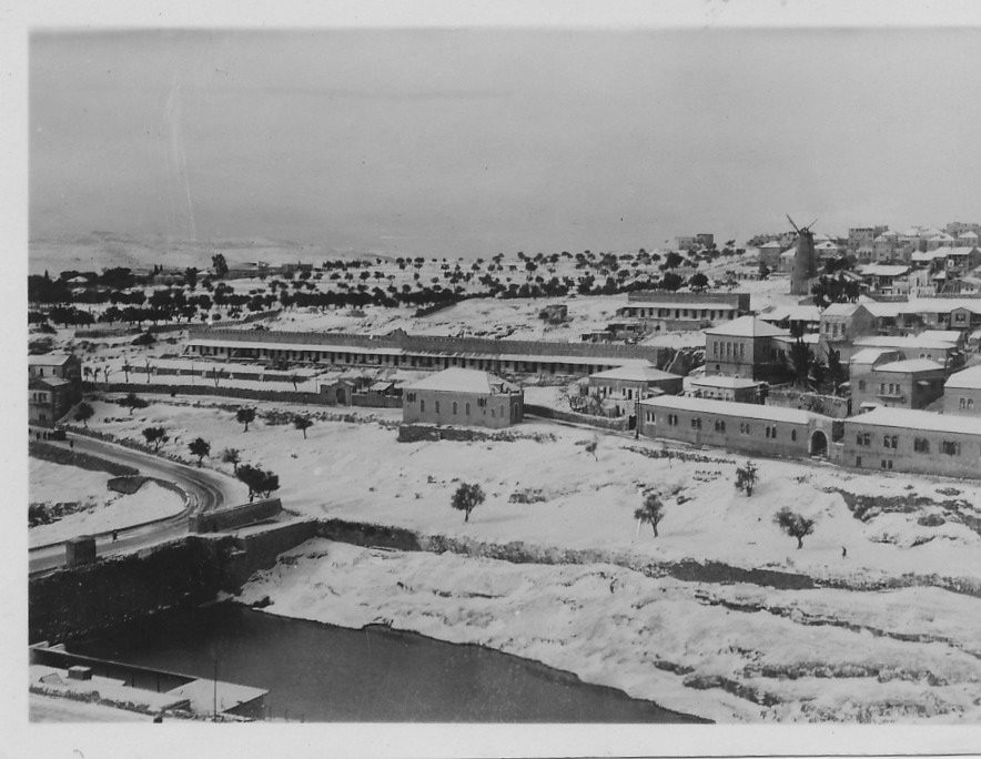 Yemin Moshe in snow, with Birket es-Sultan in foreground. 1920s.